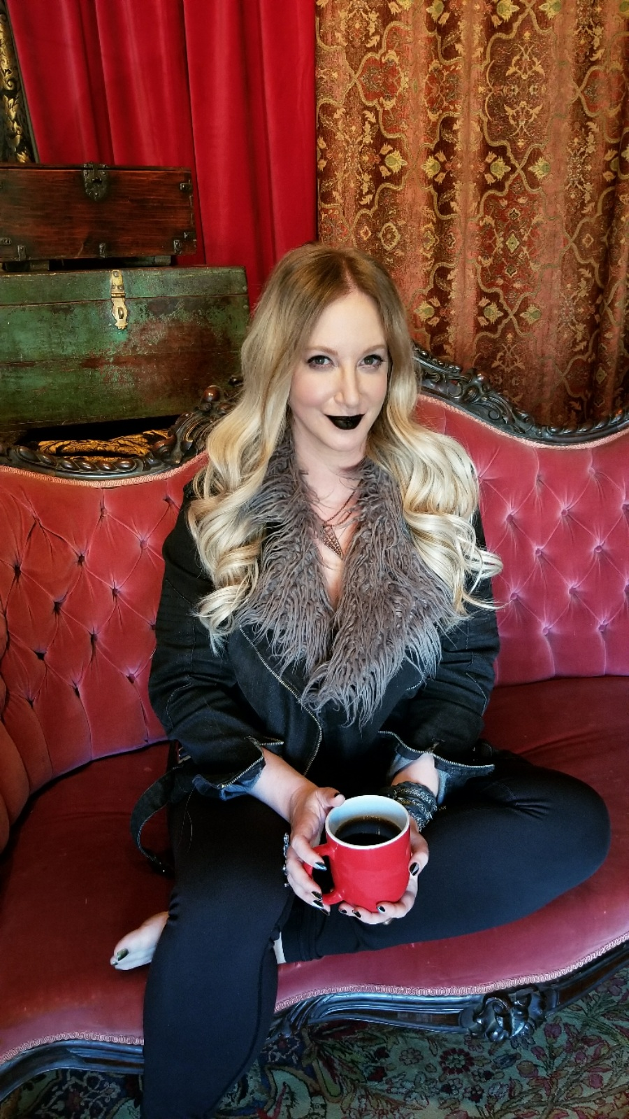 Copyright owner by assignment; submitted on behalf of copyright holder, Leigh Bardugo. Leigh has emailed to confirm her copyright.